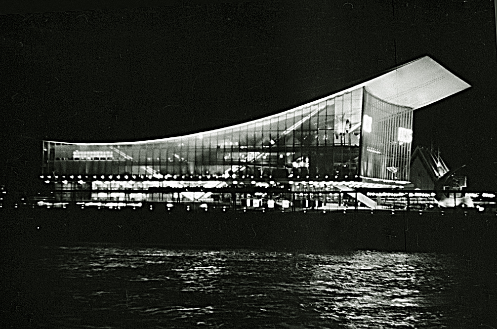 Soviet pavillion on the Expo 1967